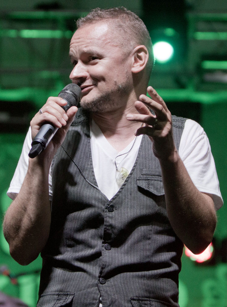 Patrick performing in Irish Fest